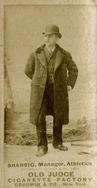 1887 Tobacco Card of Bill Sharsig, manager of the Philadelphia Athletics.